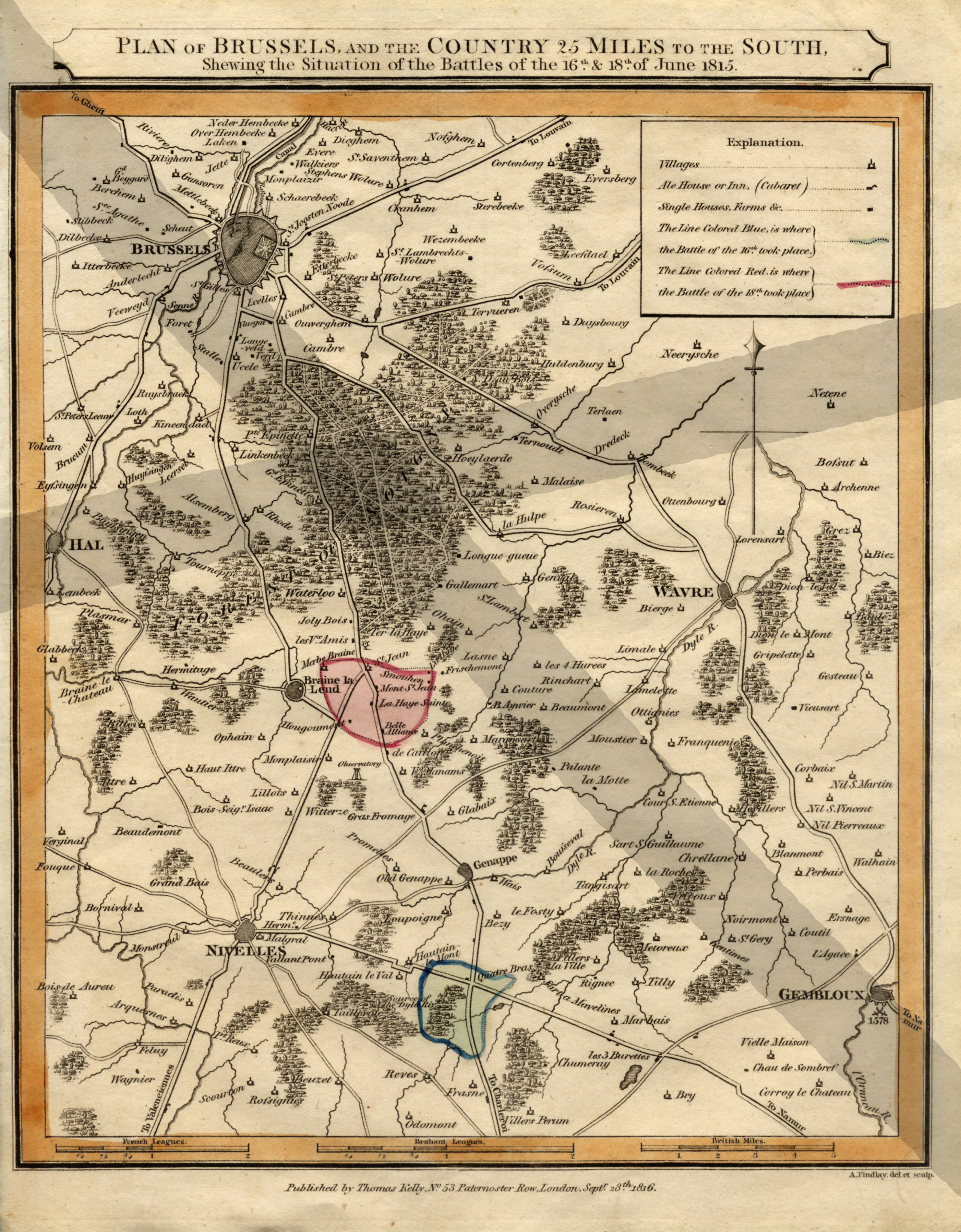 The battle of Waterloo -Plan of Brussels and the country 25 miles to the south